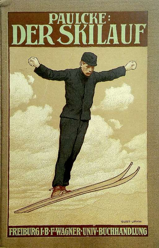 Wilhelm Paulcke: Der Skilauf. Published in 1905. First published in 1899